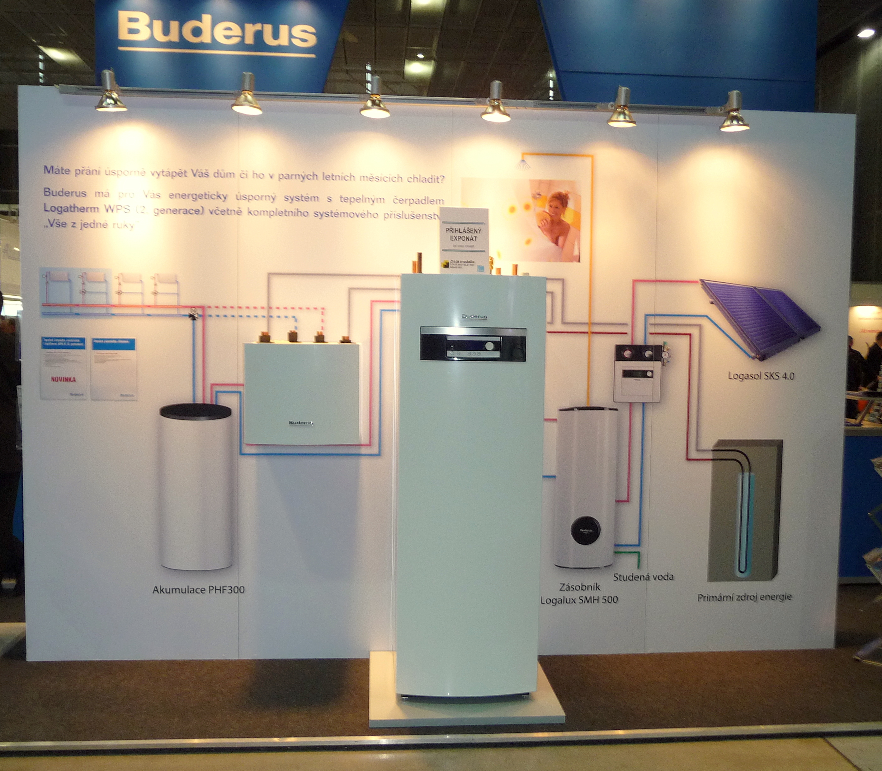 Solar system Buderus, Building Fairs Brno 2011 -10-5-3-2◄►+2+3+5+10